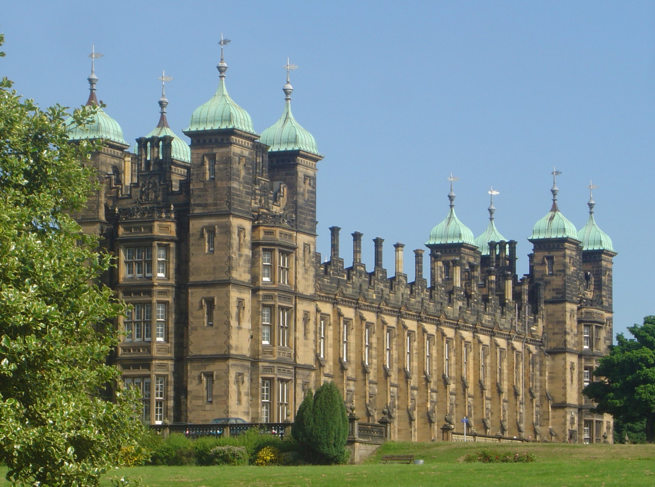 Donaldson's Hospital Building. From 1851-2008 it housed Donaldson's School, an educational institution for the deaf and other language-impaired, in Edinburgh, Scotland. After 2008 it was converted to luxury apartments.